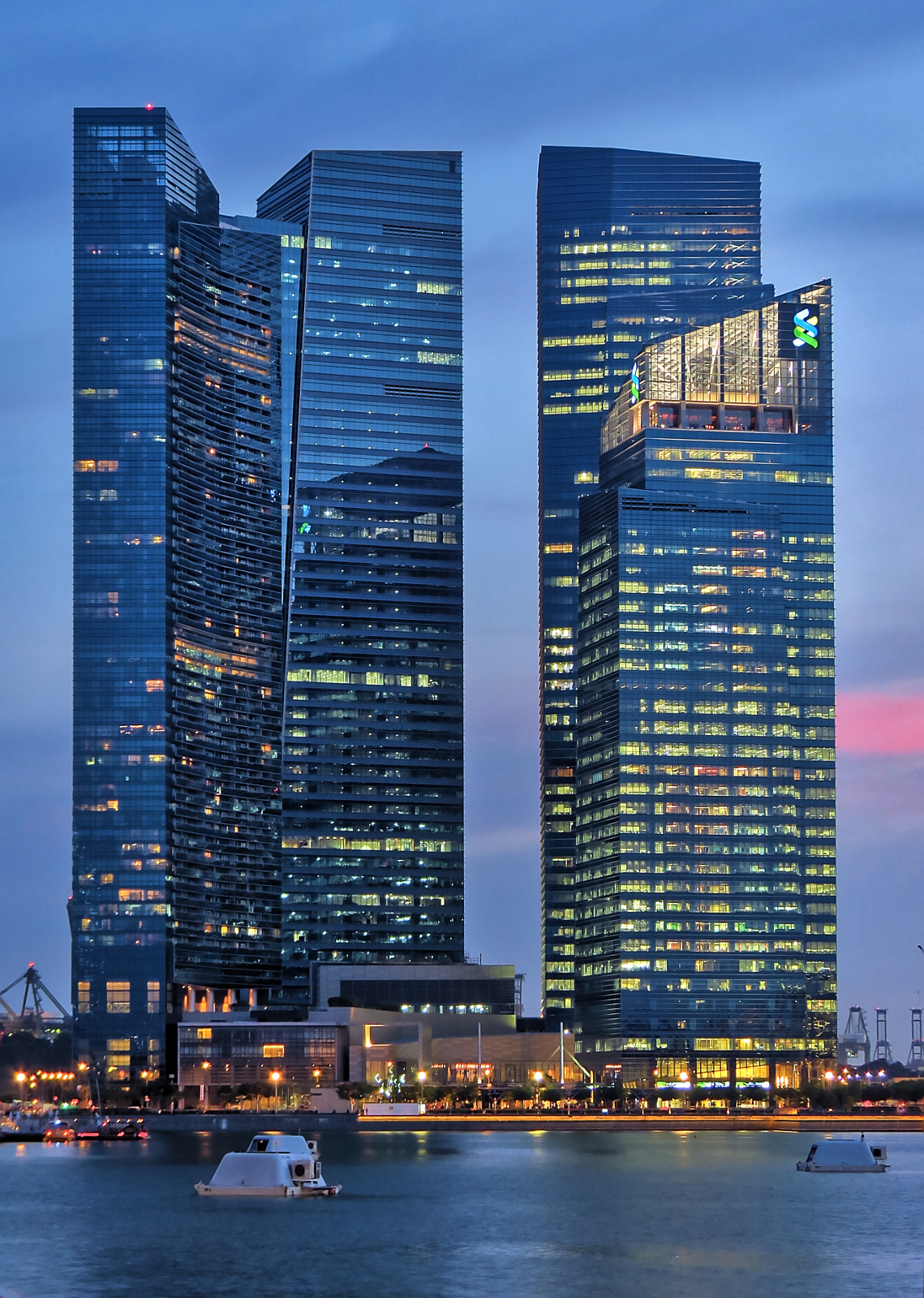 Another old shot taken at the beginning of 2012 before the dslr days 3 bracket exposure HDR Canon SX40